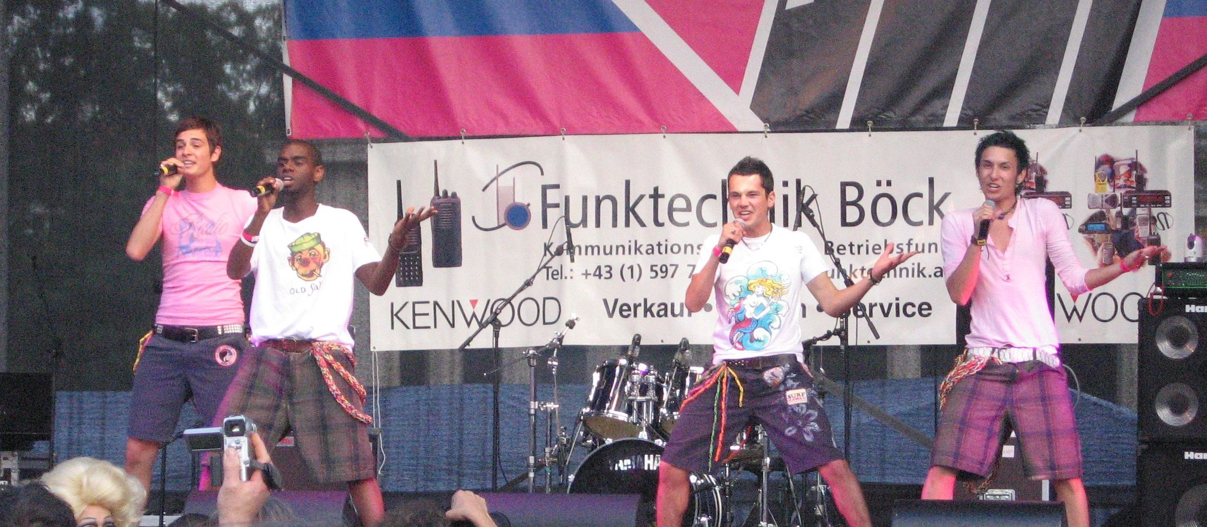 Jetzt anders! at the Celbration of the Austrian GayPride (Regenbogenparade) on the Schwarzenbergplatz